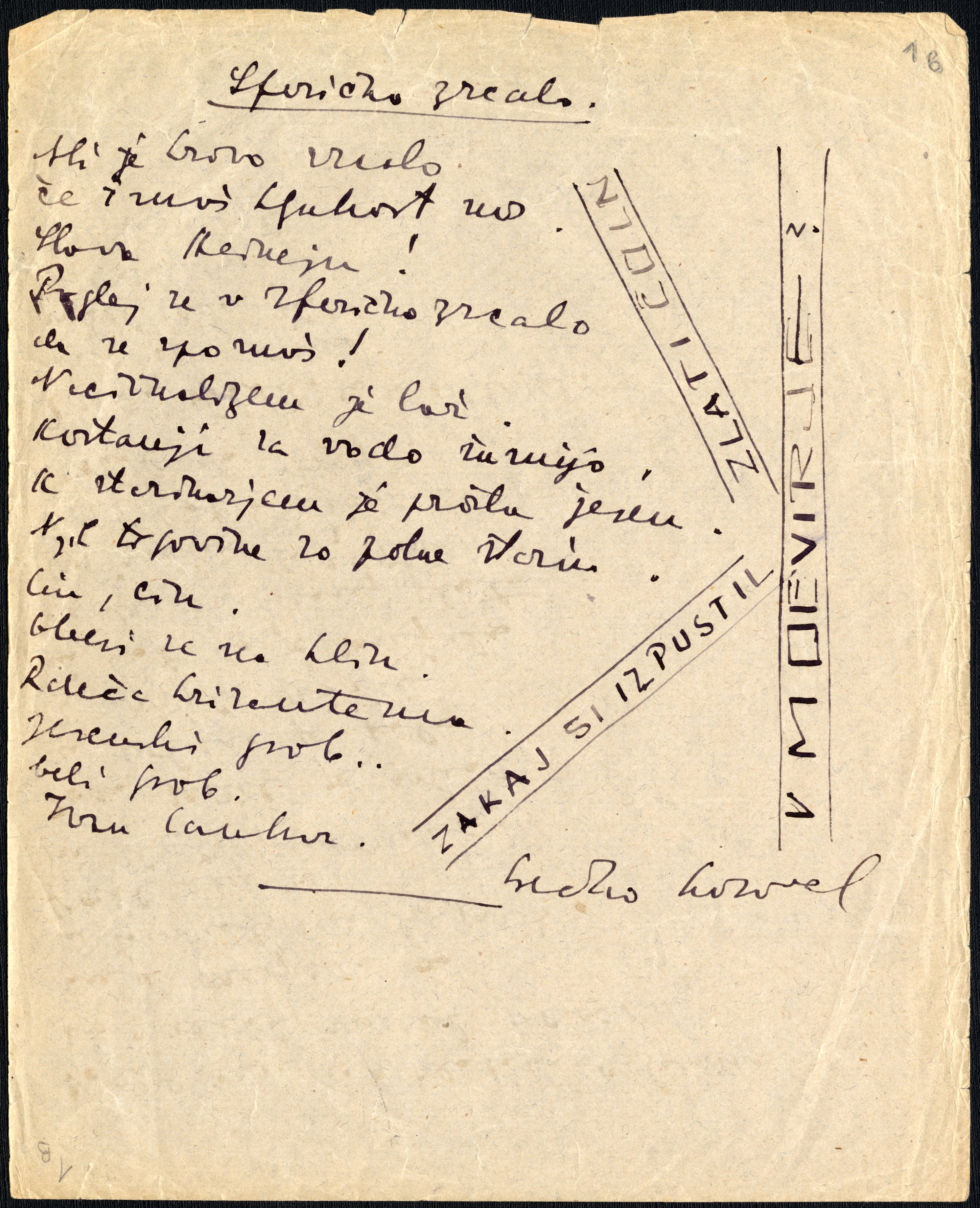 The manuscript of the poem Sferično zrcalo by Srečko Kosovel.